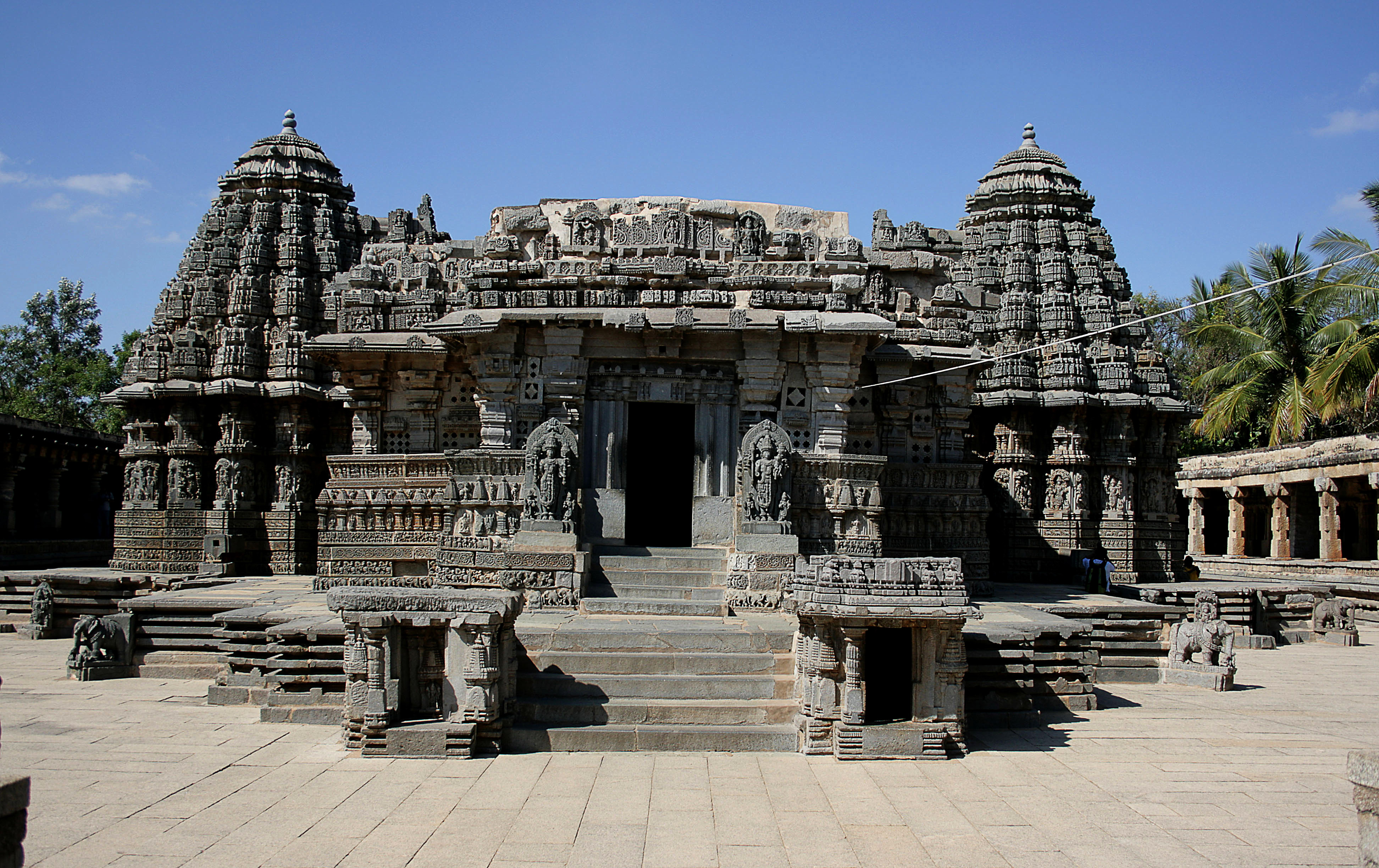 Somnathpur temple located in Karnataka.